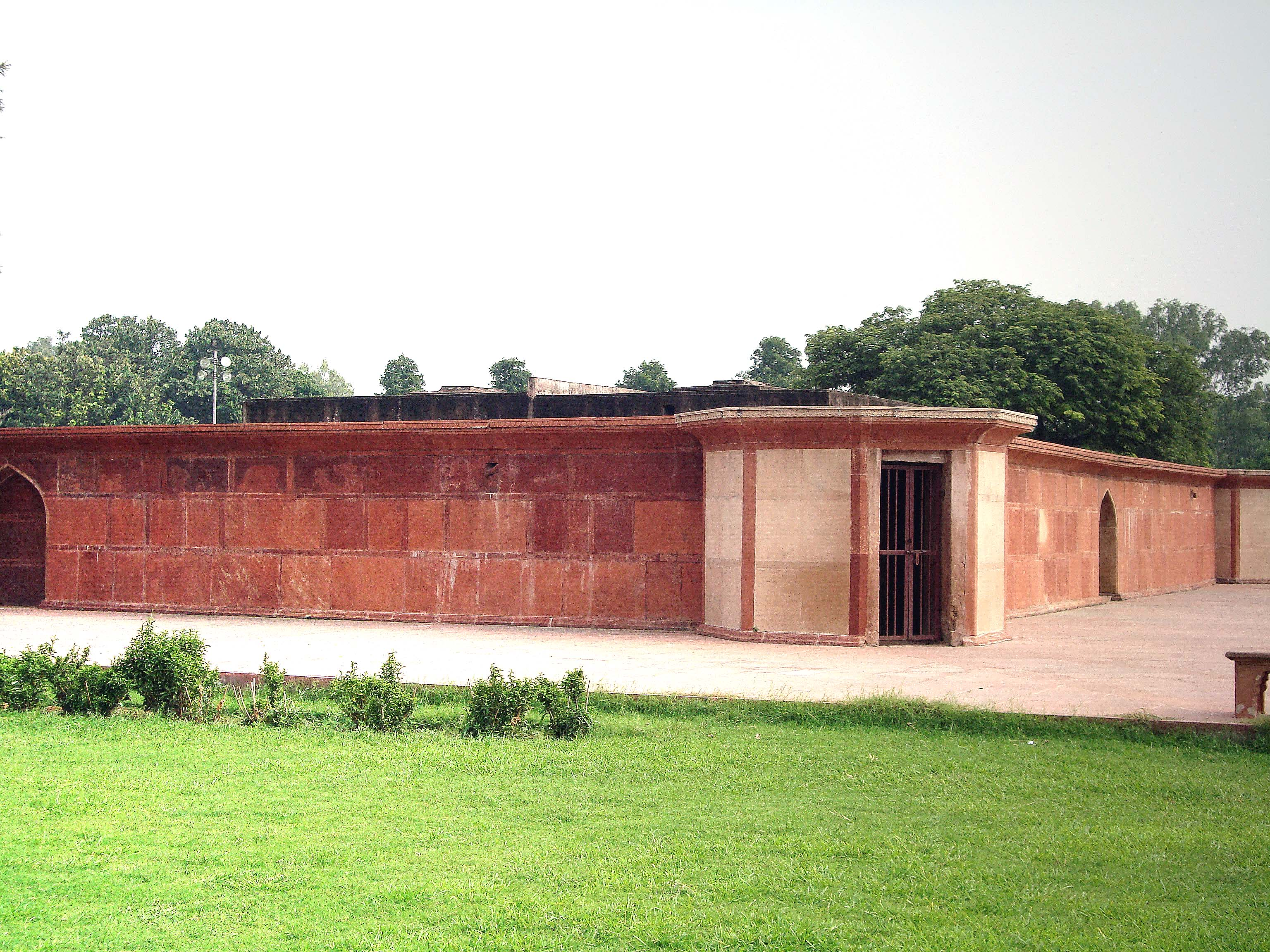 Enclosure wall with Tomb of Mirza Najaf Khan